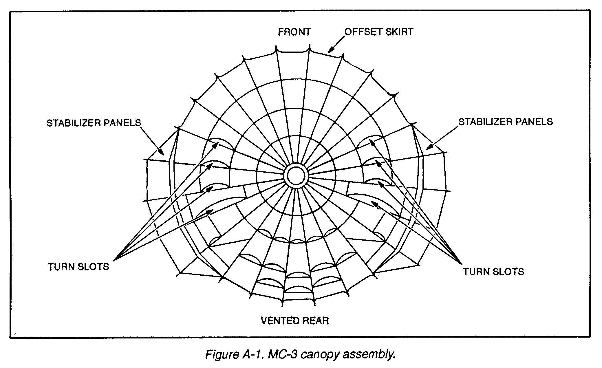 Fallschirmkappe des Freifallsystems MC-3 = Para-Commander. Bild aus Field Manual 31-19 von 1993